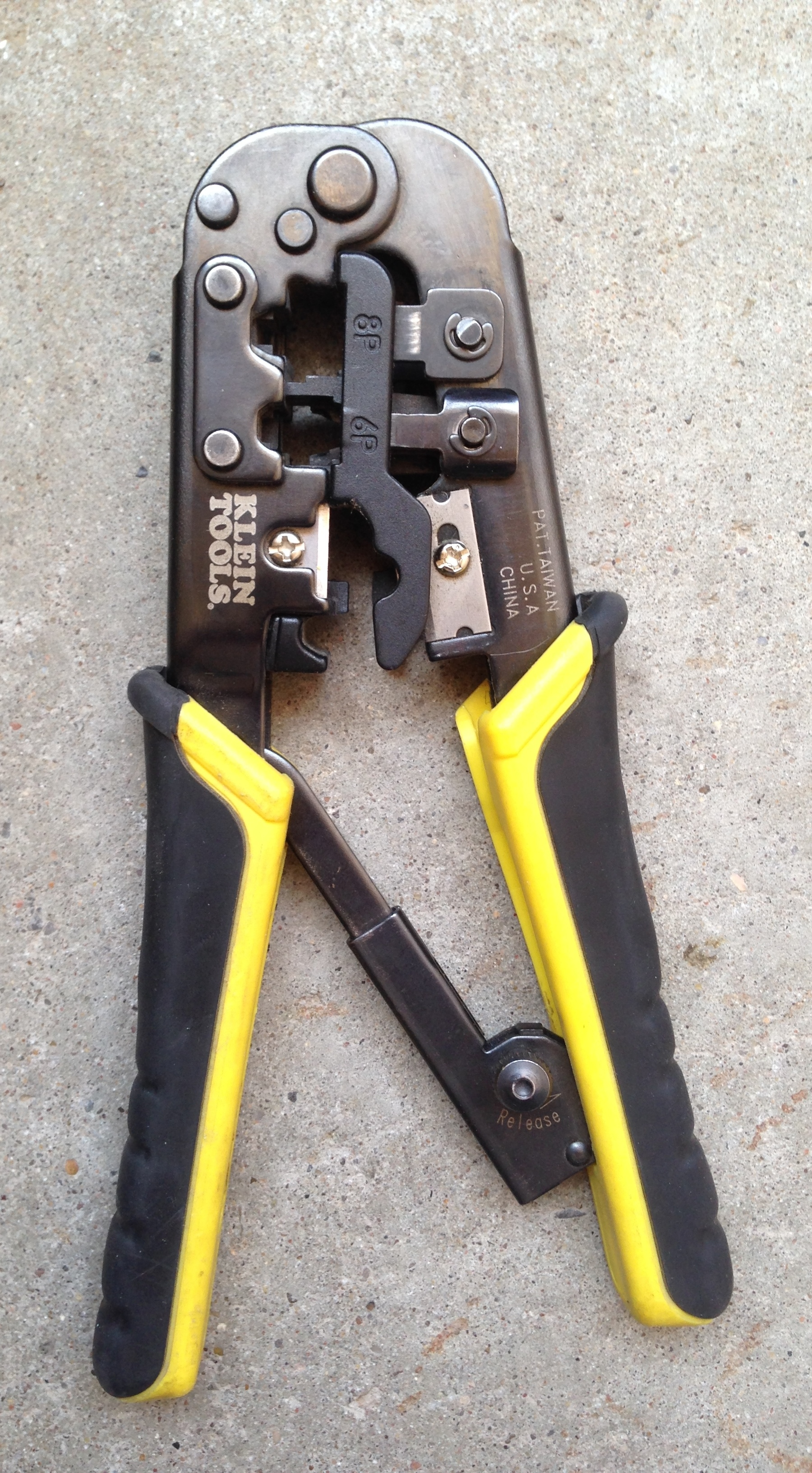 A Klein ratcheting modular plug crimper.